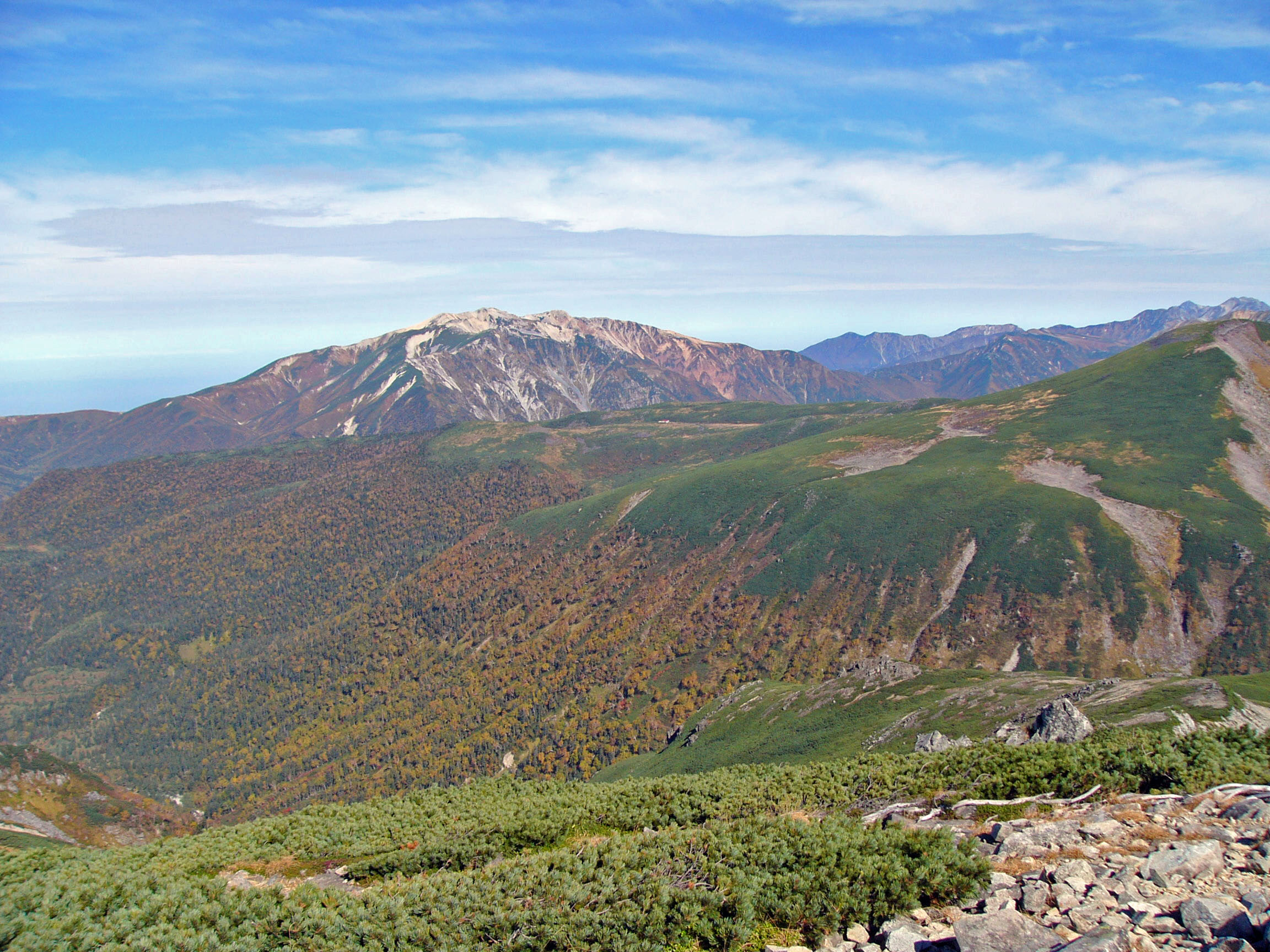 View of Mount Yakushi and Kumonotaira plateau from Mount Mitsumatarenge in the Hida Mountains, Japan